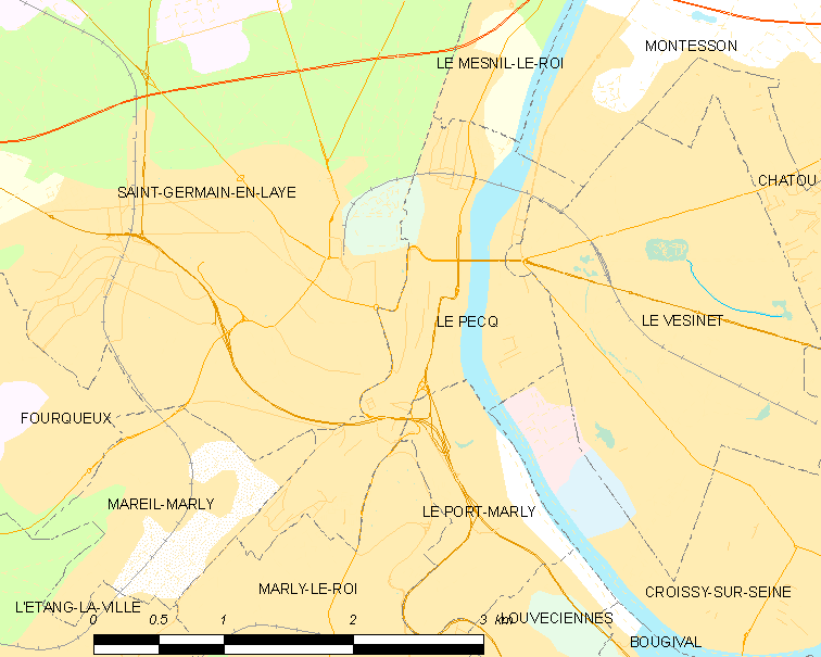 Map of French municipality Le Pecq